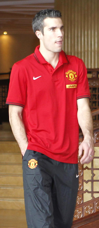 Manchester United's Robin van Persie in Doha during a four-day training camp. Picture by Dabbous Mohammed